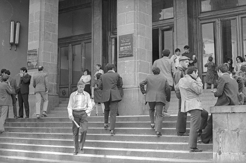 At the Polytechnic Institute of Georgia. Tbilisi, Georgian Soviet Socialist Republic. 1970s.